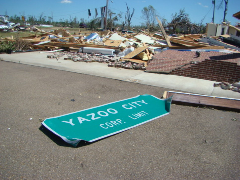 The town sign for Yazoo City, Mississippi, along with the ruins of a large brick building. The damage was caused by an April 24, 2010 tornado which killed 10 people in Mississippi.